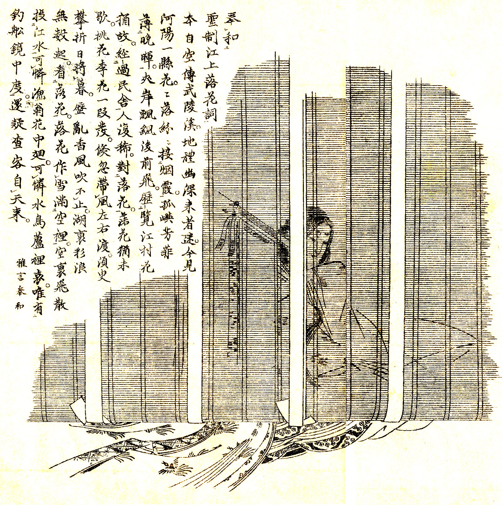 Princess Uchiko(有智子内親王) was a Japanese poet and daughter of emperor Saga.